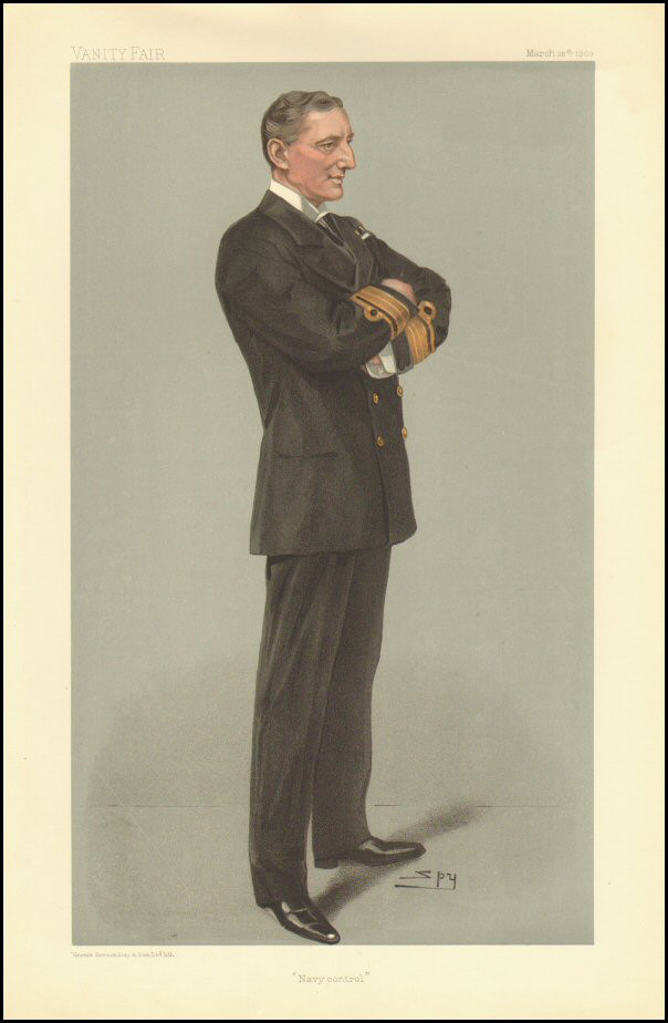 Men of the Day No.0871: Caricature of Rear-Adm WH May MVO. Caption reads: "Navy Control"